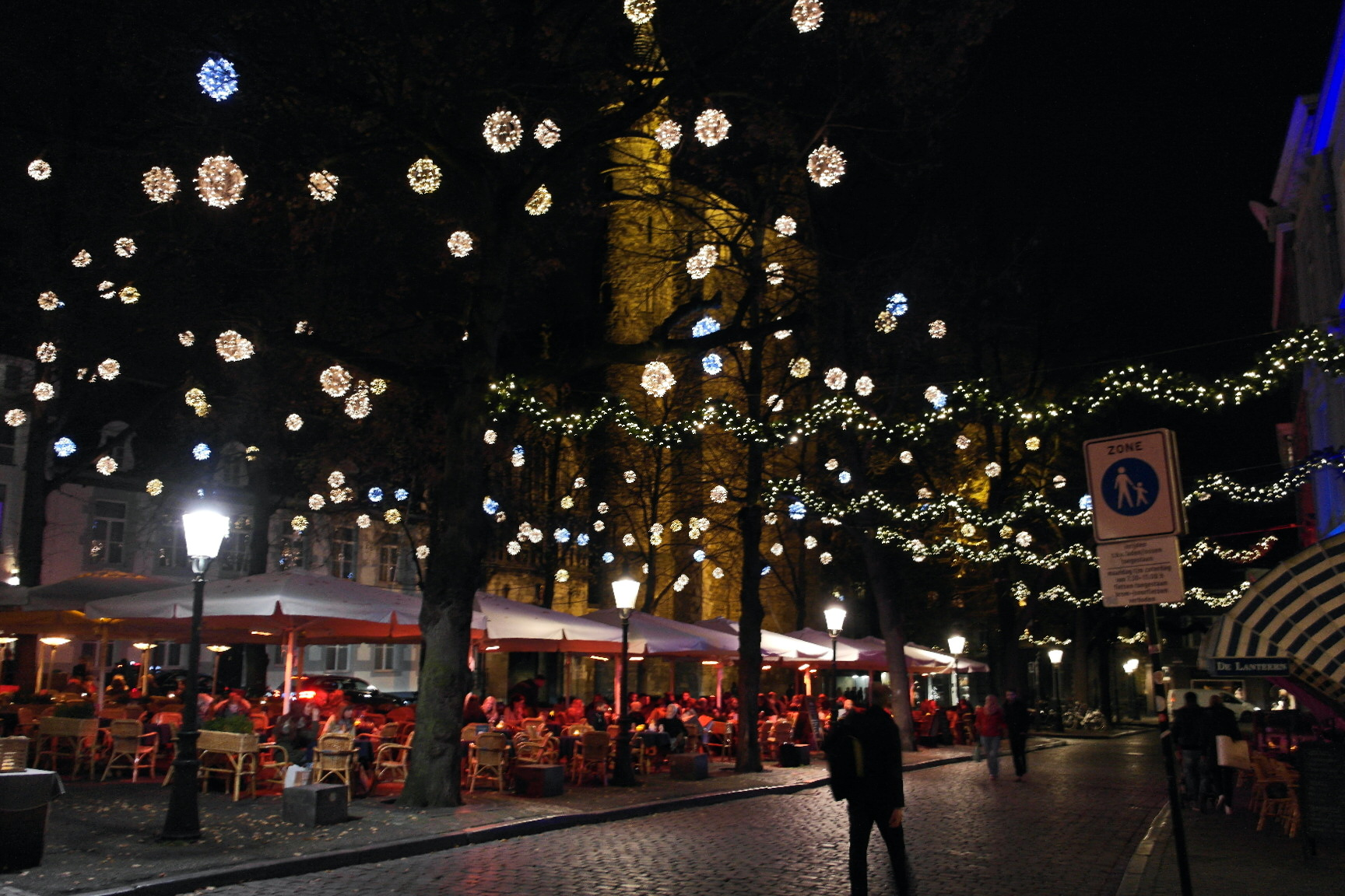 Maastricht, the Netherlands. Onze Lieve Vrouweplein with Christmas lights.